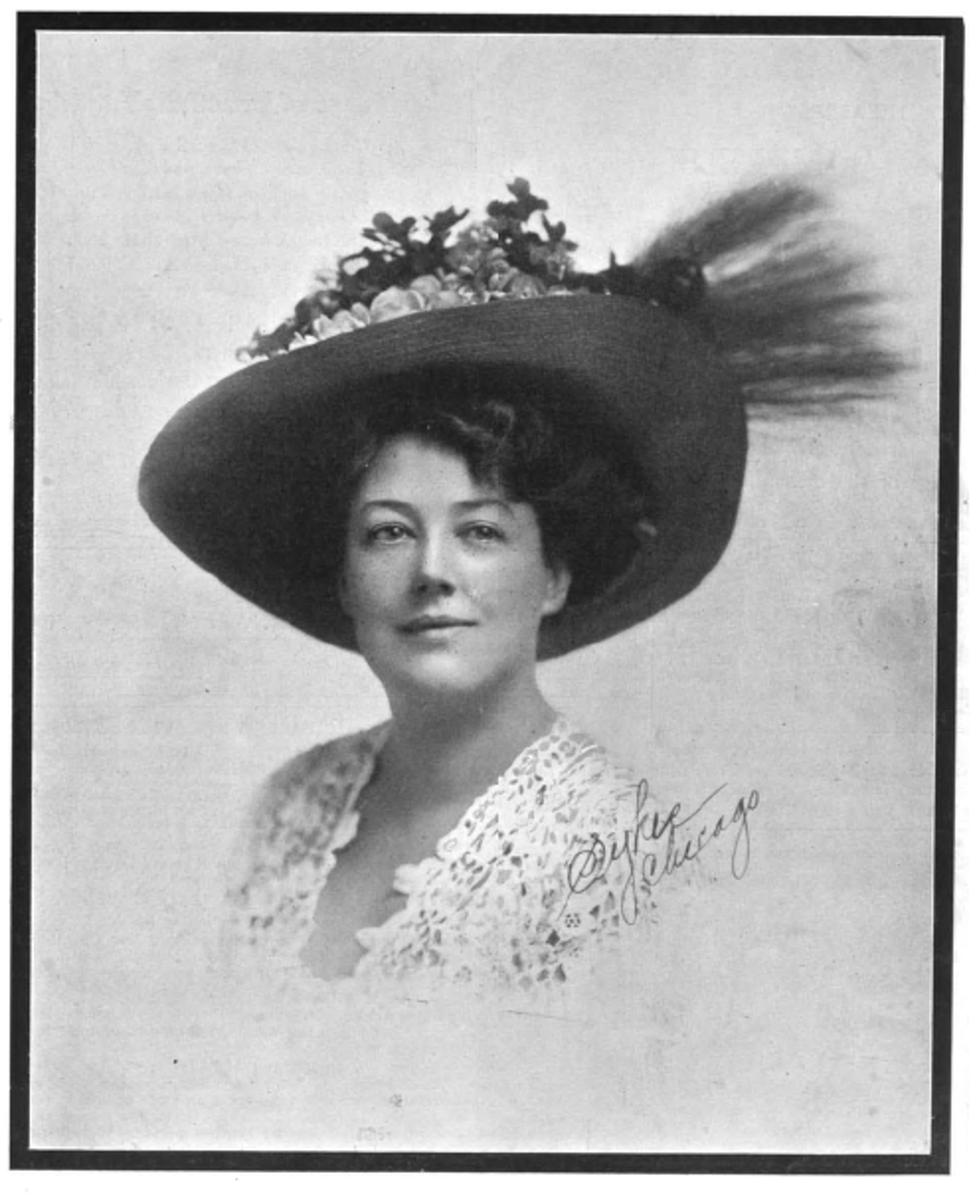 Blanche Ring at the Colonial Theatre 1909